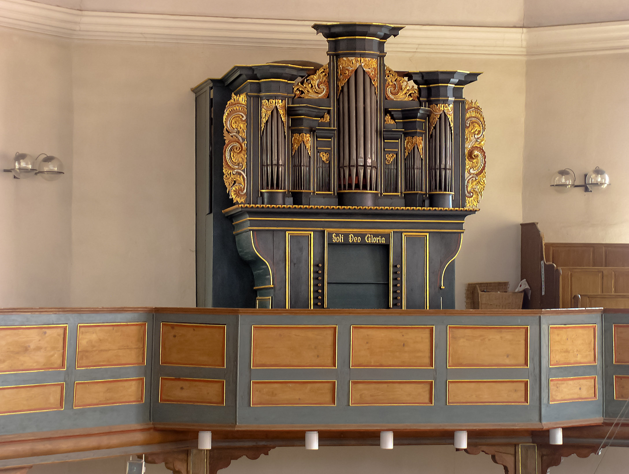 Organ in the Holy Spirit Church of Speyer